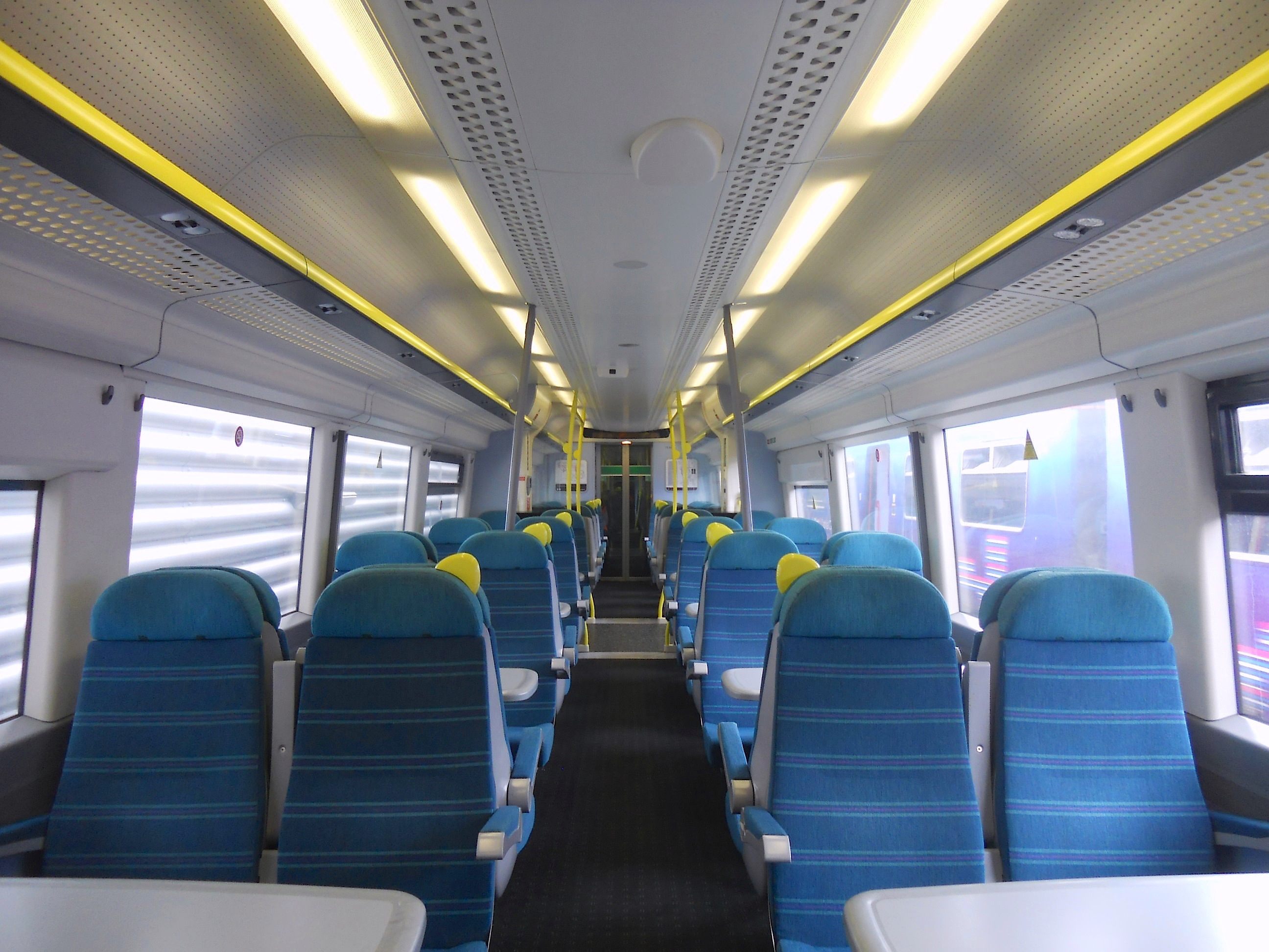 The interior of Standard Class accommodation aboard a Southern Railway Class 377/4 Electrostar